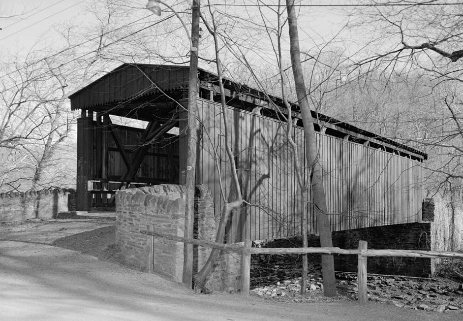 Covered Bridge, Thomas Mill Road (Spanning Wissahickon Creek), Philadelphia (Philadelphia County, Pennsylvania), cropped